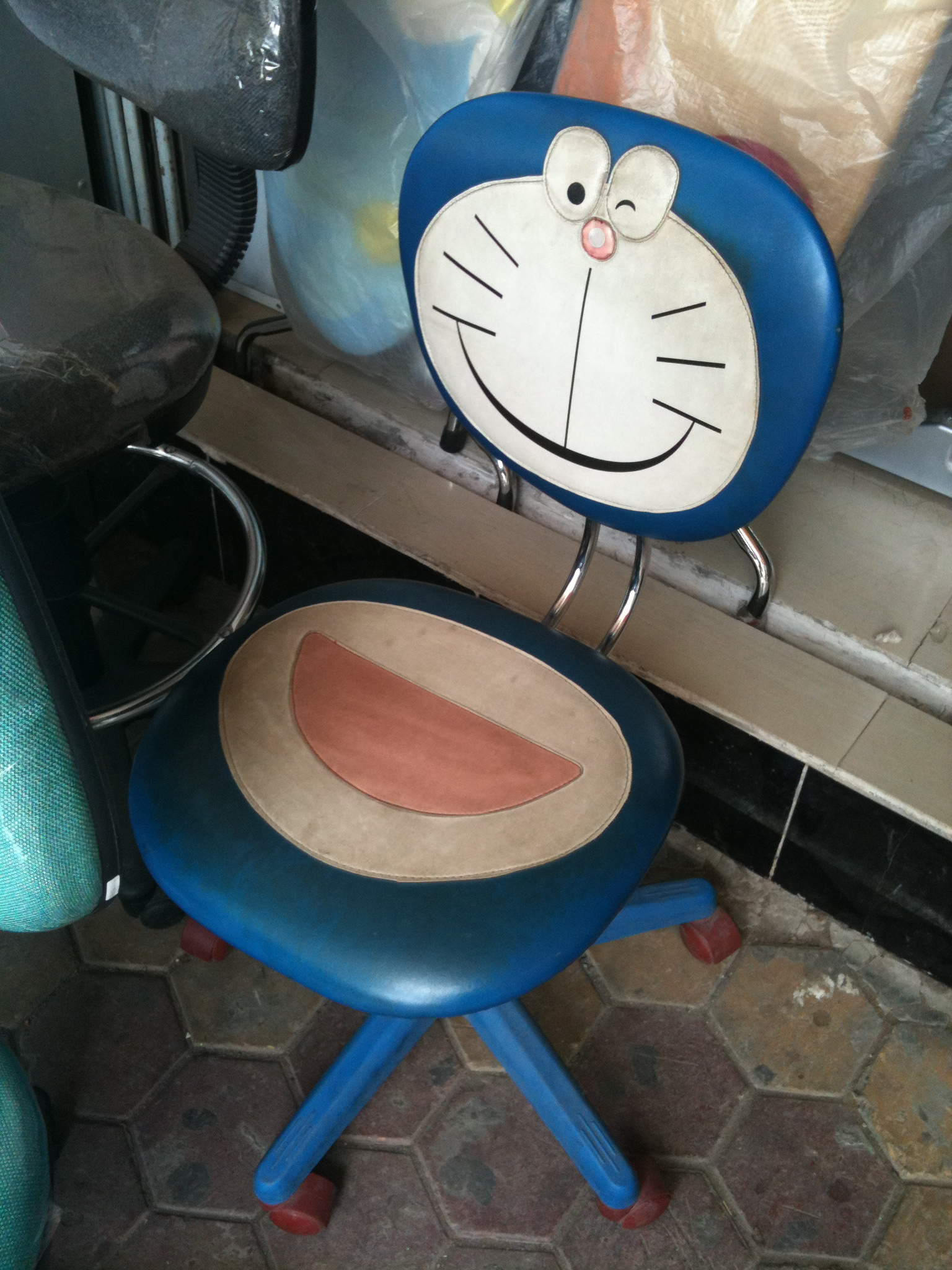 A swivelling chair in a shop in Hanoi, Vietnam, carrying the likeness of the Japanese manga and anime character, Doraemon.